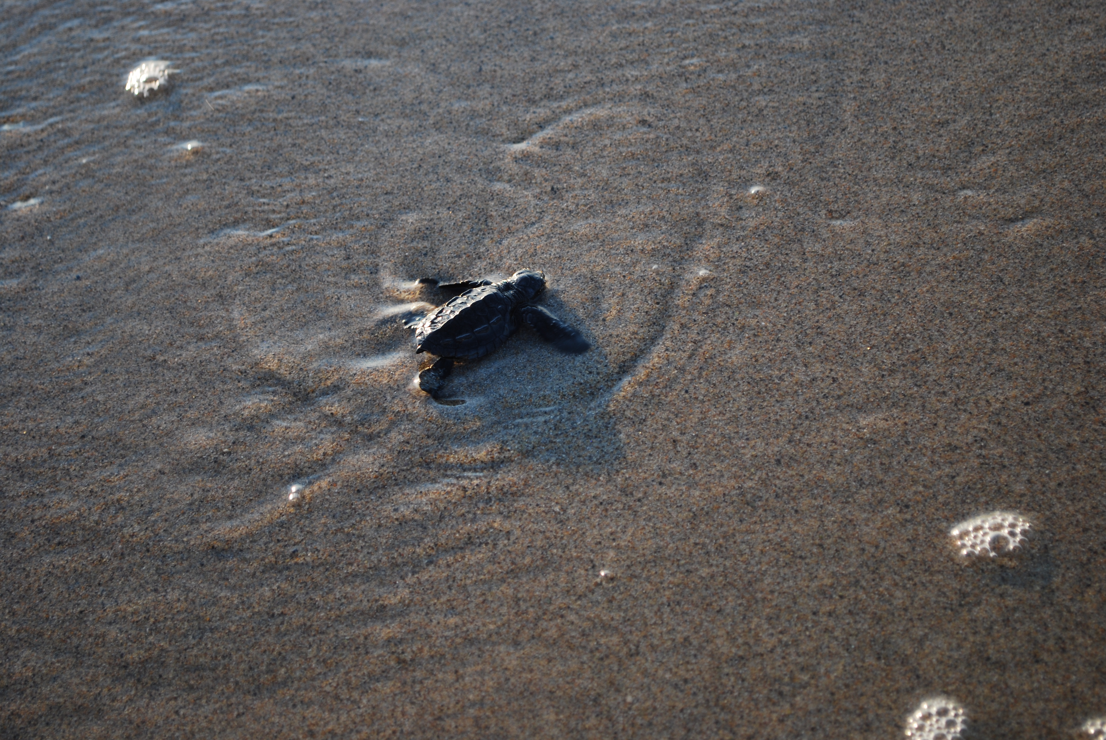 Baby loggerhead turtle on waters edge in Tlalcoyunque Beach, Guerrero, Mexico